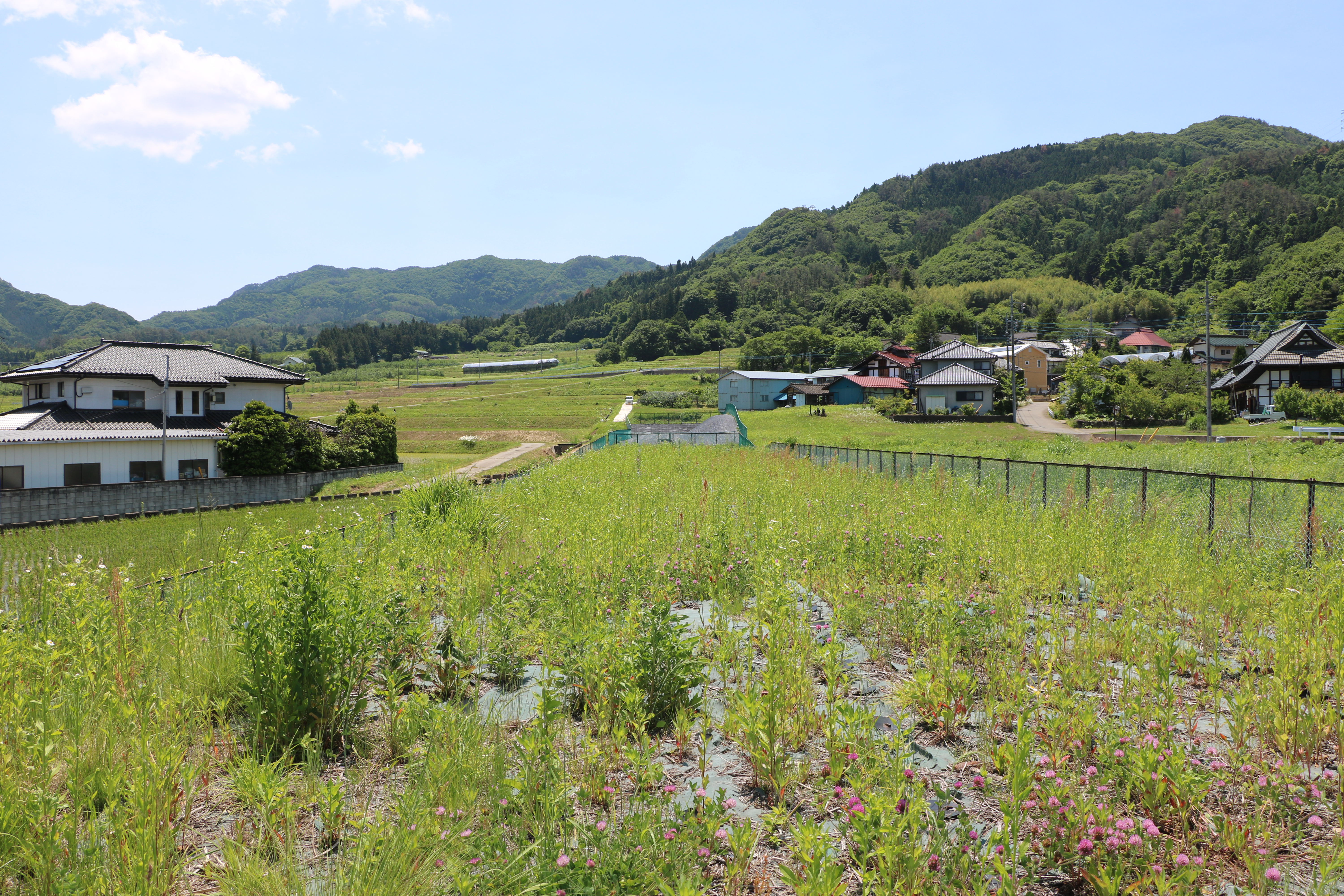 Northern side of Nakayama tunnel Nagurumi construction area of Joetsu Shinkansen